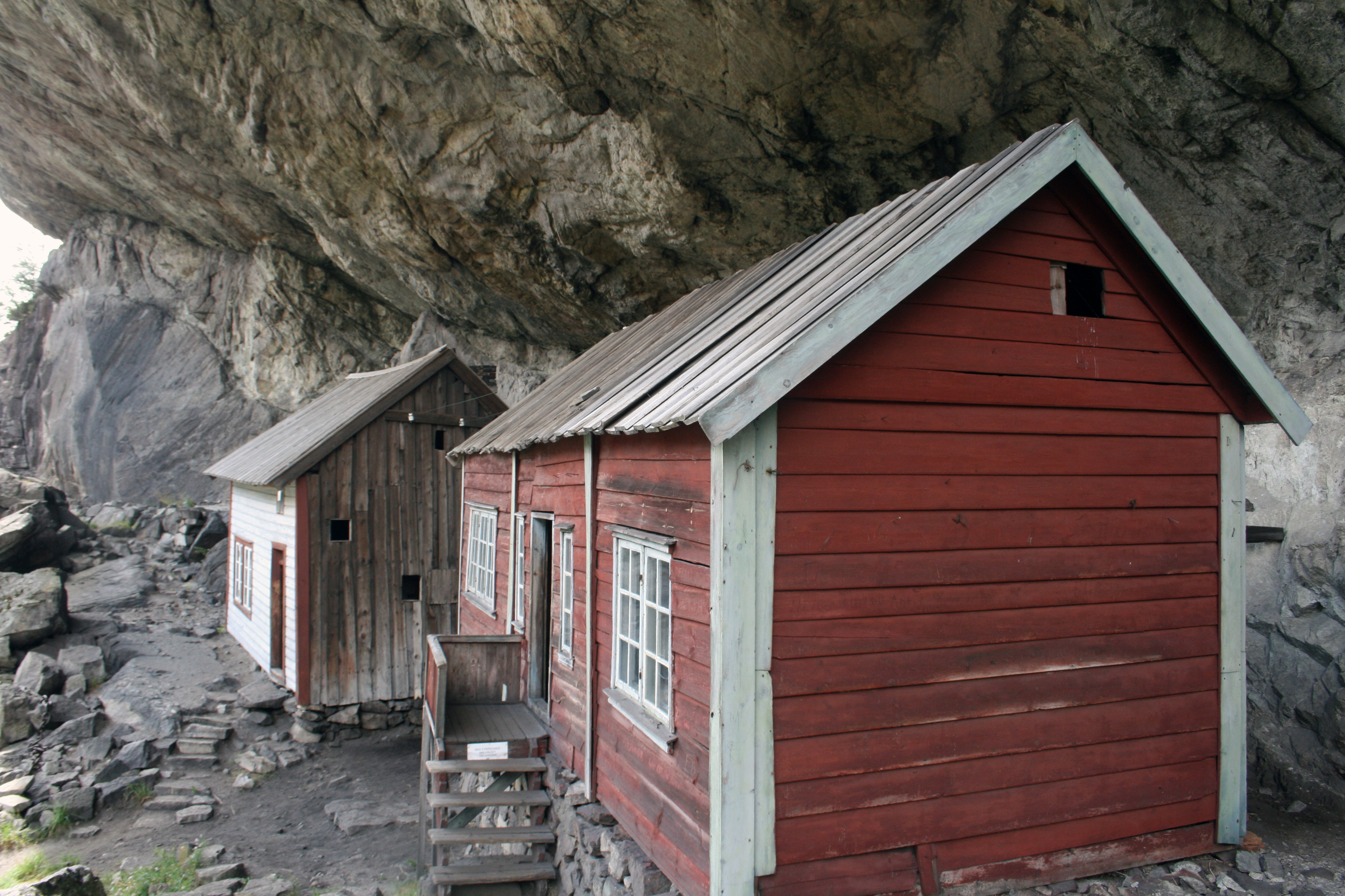 Helleren in Jøssingfjord (Sokndal municipality in Rogaland, Norway). Old housing area under a ten meter deep mountain cliff. All year settlement from the 16th century, but archeological tracks back to the stone age. Last dwellers left around 1910. Two small wooden houses from the 19th century are now owned by the district museum. Photo from the northeast.